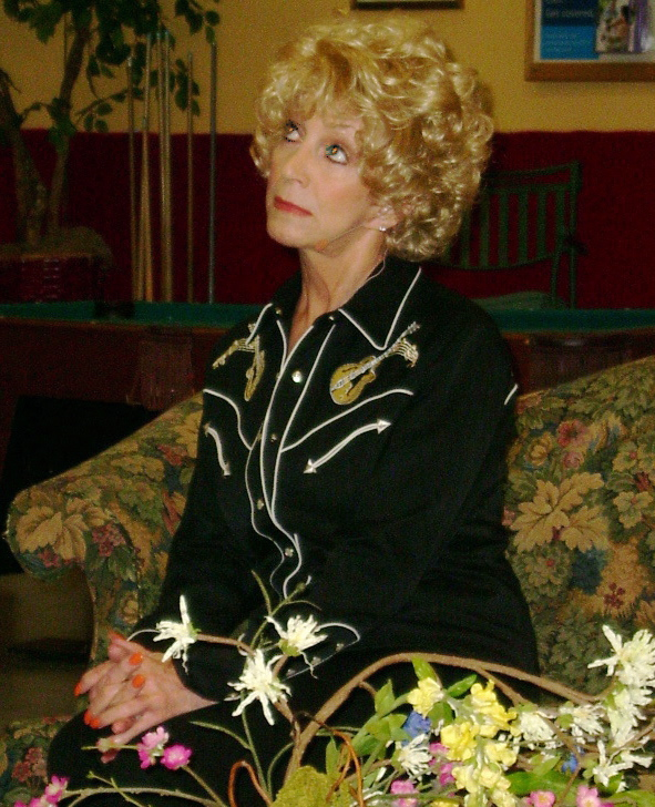 Jeannie Seely in costume for the 2005 show "Could It Be Love"